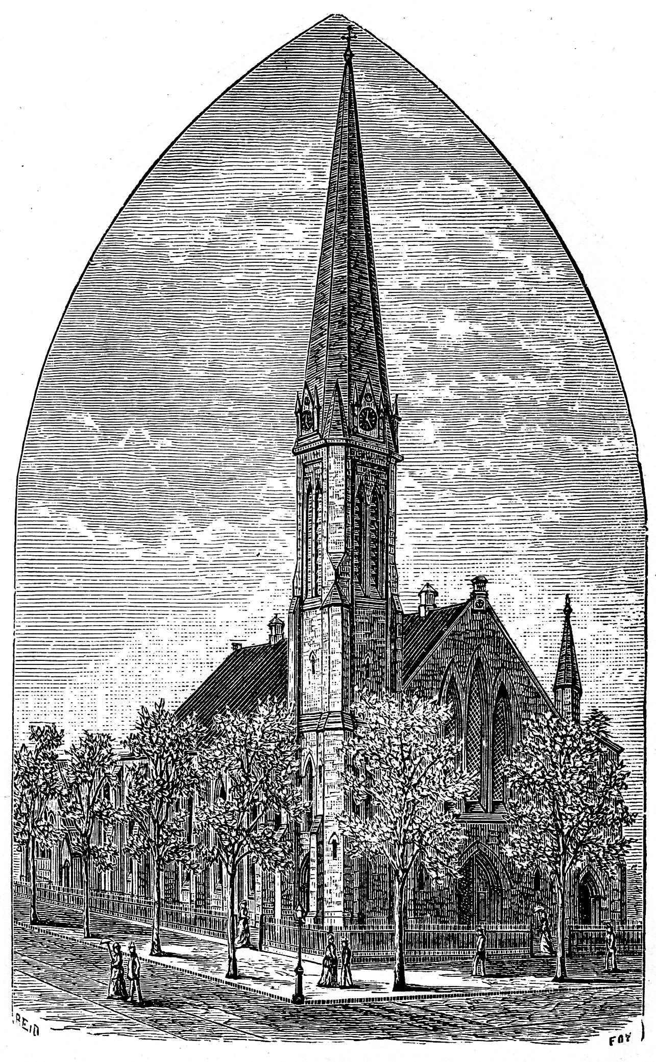 Grace Episcopal Church, Providence RI. Engraving from The Providence Plantations for 250 Years, Welcome Arnold Greene, 1886. page 151.